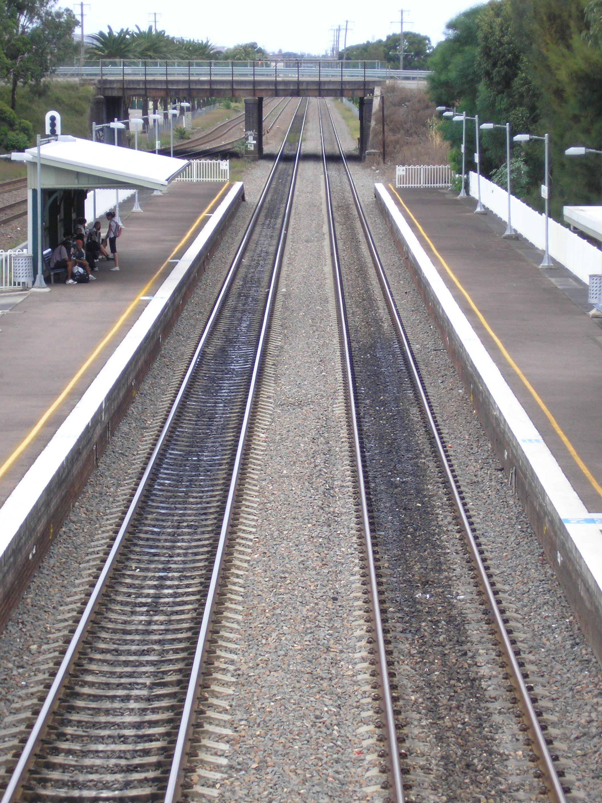 Waratah railway station, New South Wales. Taken from Pedestrian bridge. Looking South East. Platforms and road bridge visible. Taken 13 March 2007 by User:One Salient Oversight